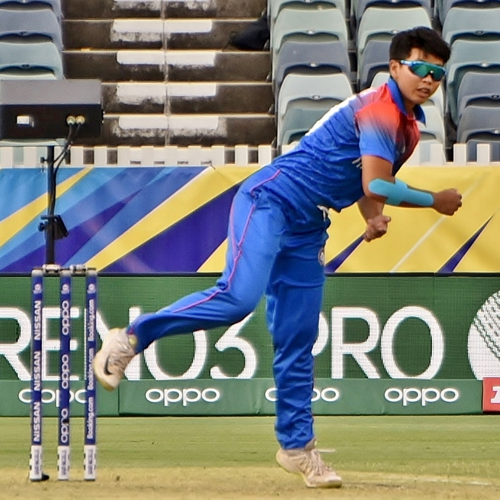 Onnicha Kamchomphu bowling for Thailand against the West Indies during their 2020 ICC Women's T20 World Cup match at the WACA Ground in Perth, Australia